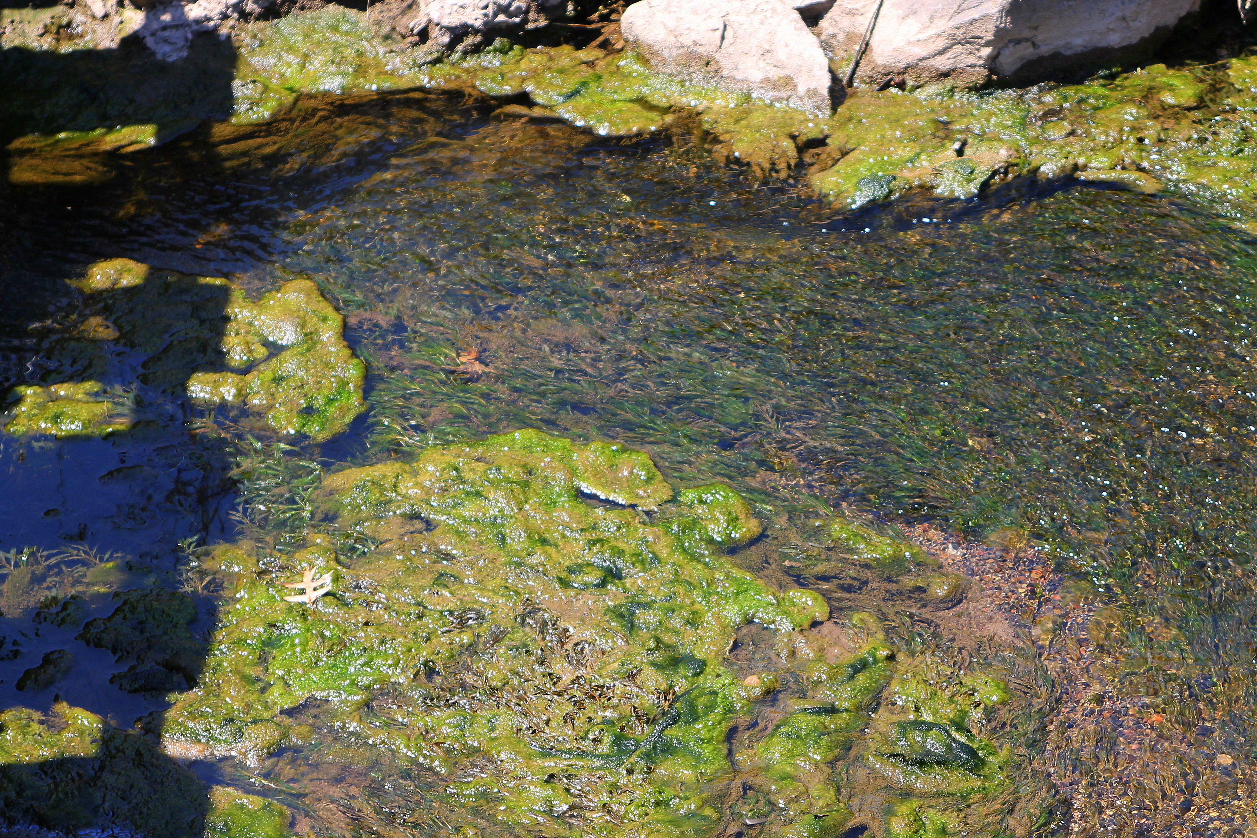 Plantlife and algae in Spring Run